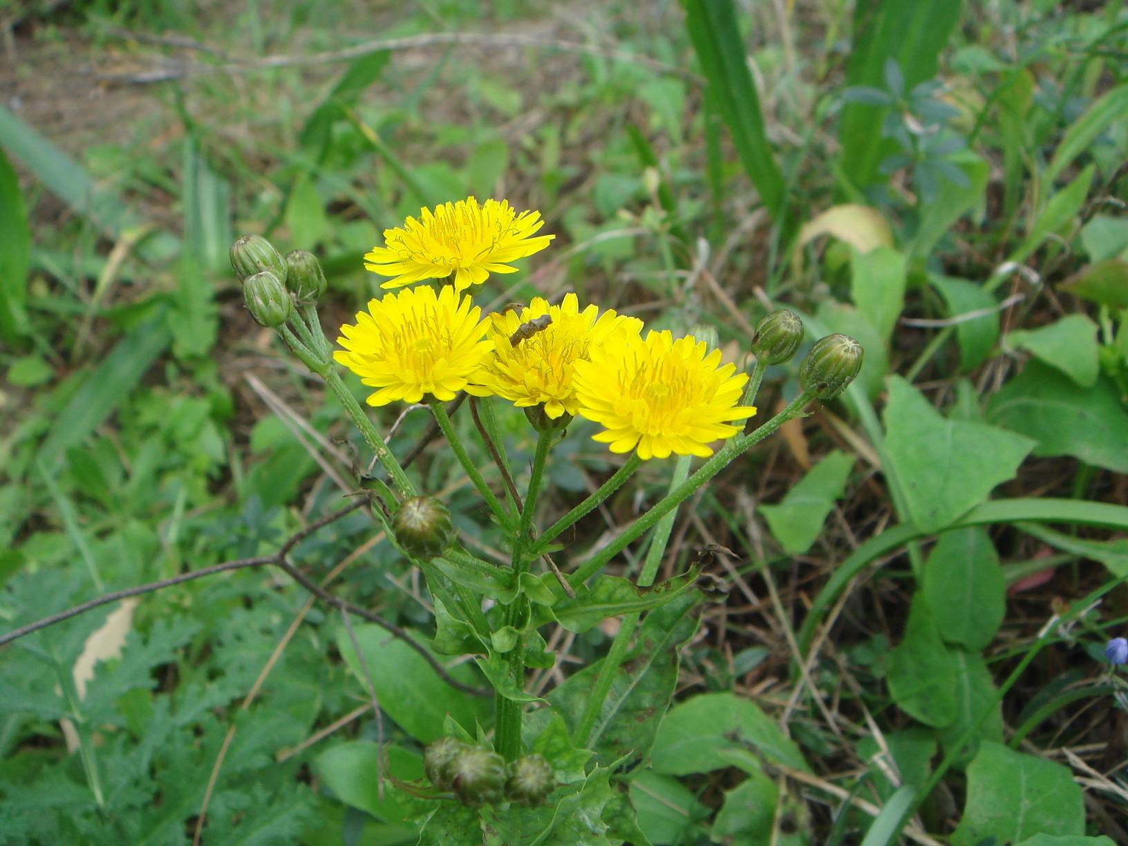 (Sonchus maritimus ssp. aquatilis) , Chiclana, province of Cádiz, Spain.